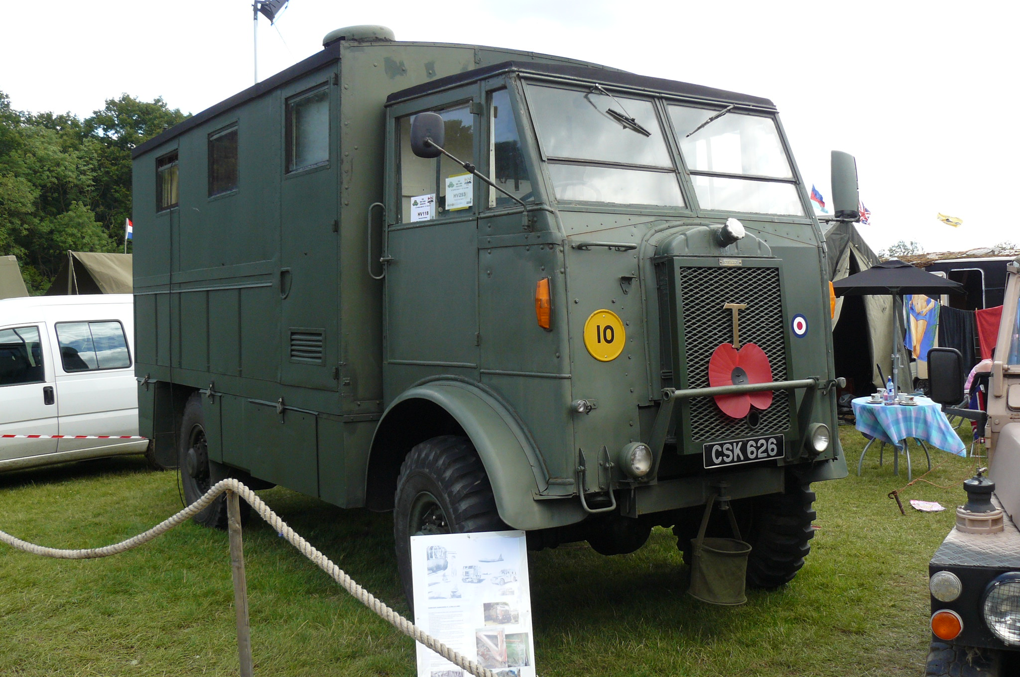 1944 Thornycroft Nubian CSK626, seen at War & Peace shpw, July 2011